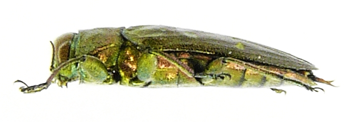 Side of Chrysobothris affinis